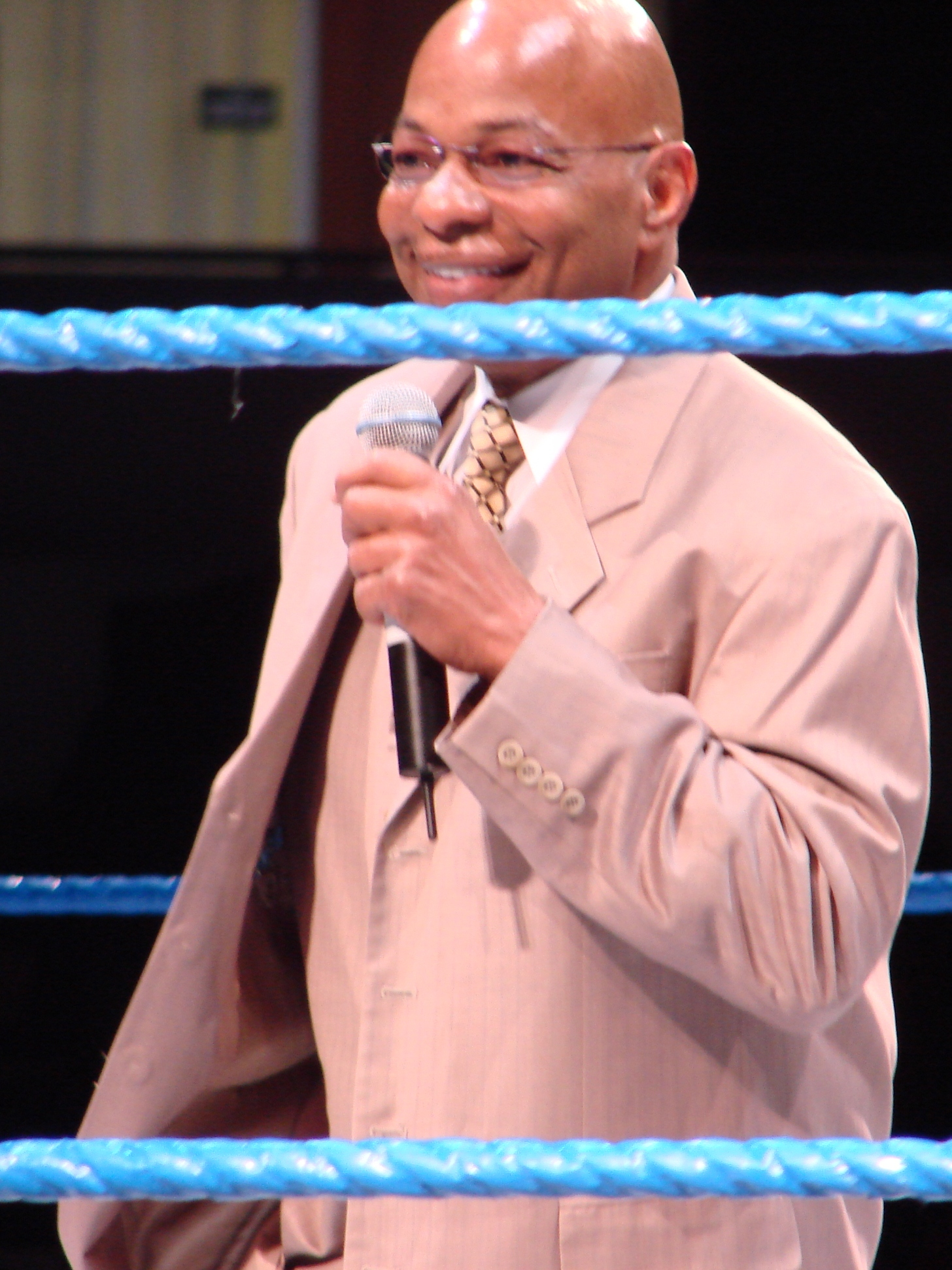 Theodore Long at a SmackDown! event in Assembly Hall. Cropped.